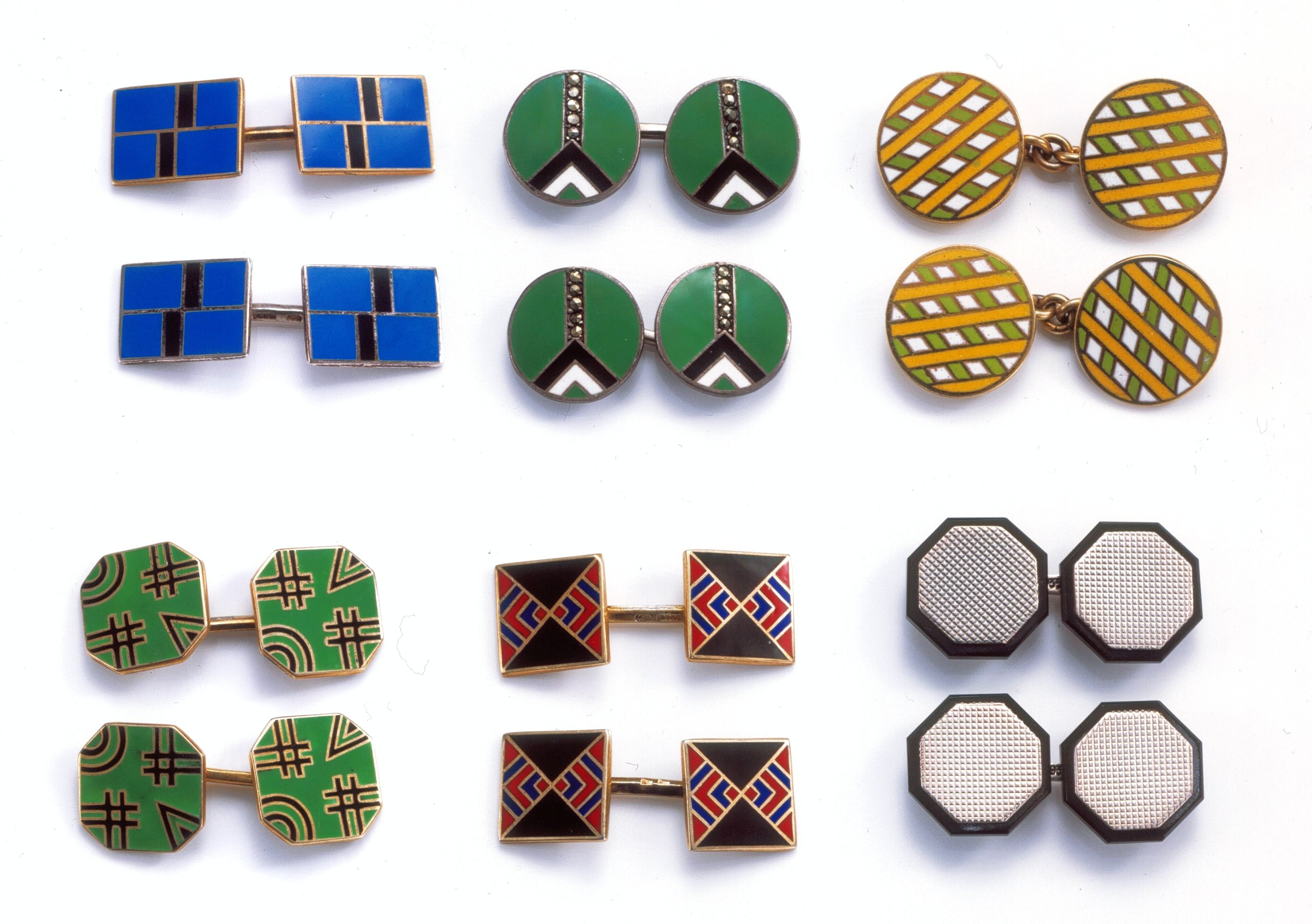 cufflinks made by Victor Mayer, Pforzheim, Germany, in the 1930ies